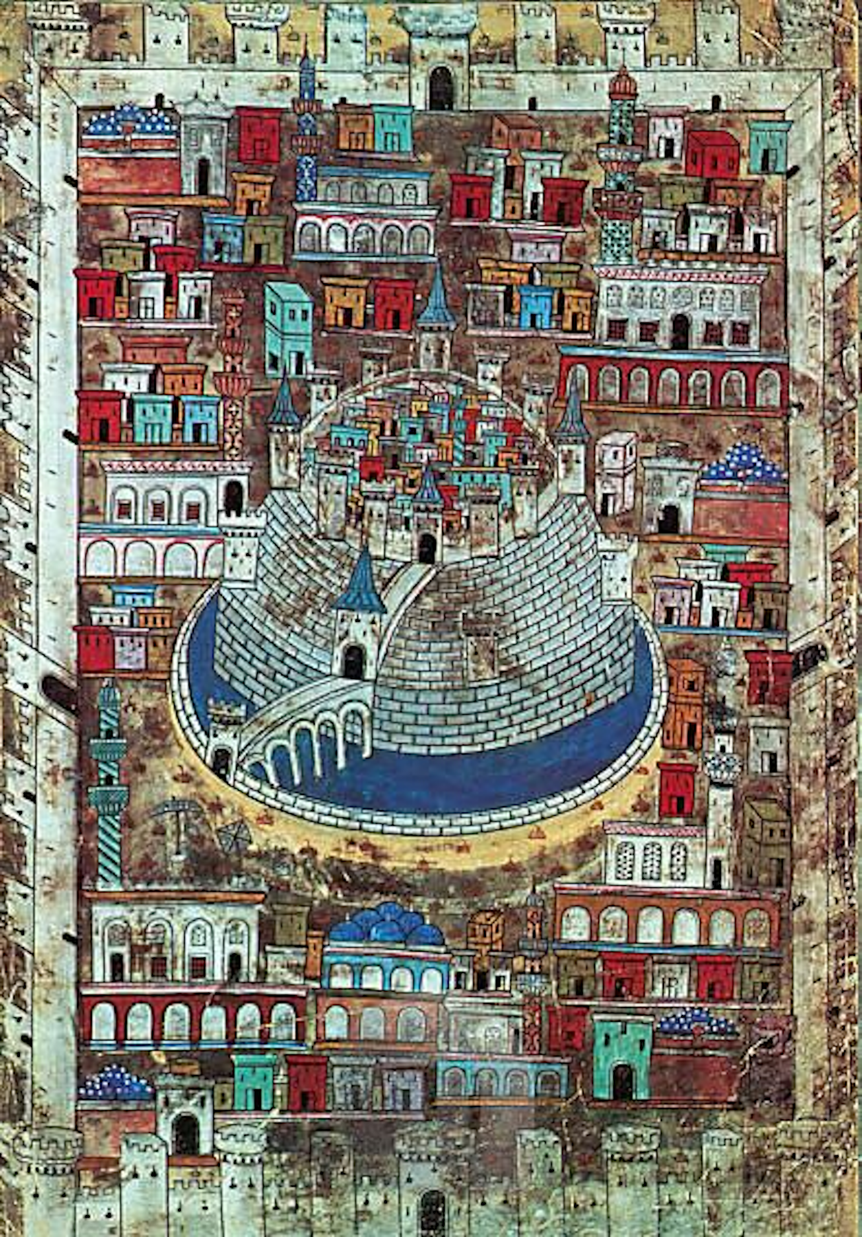 Matrakçı Nasuh's view of Aleppo, ca. 1537.